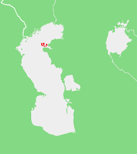 location map